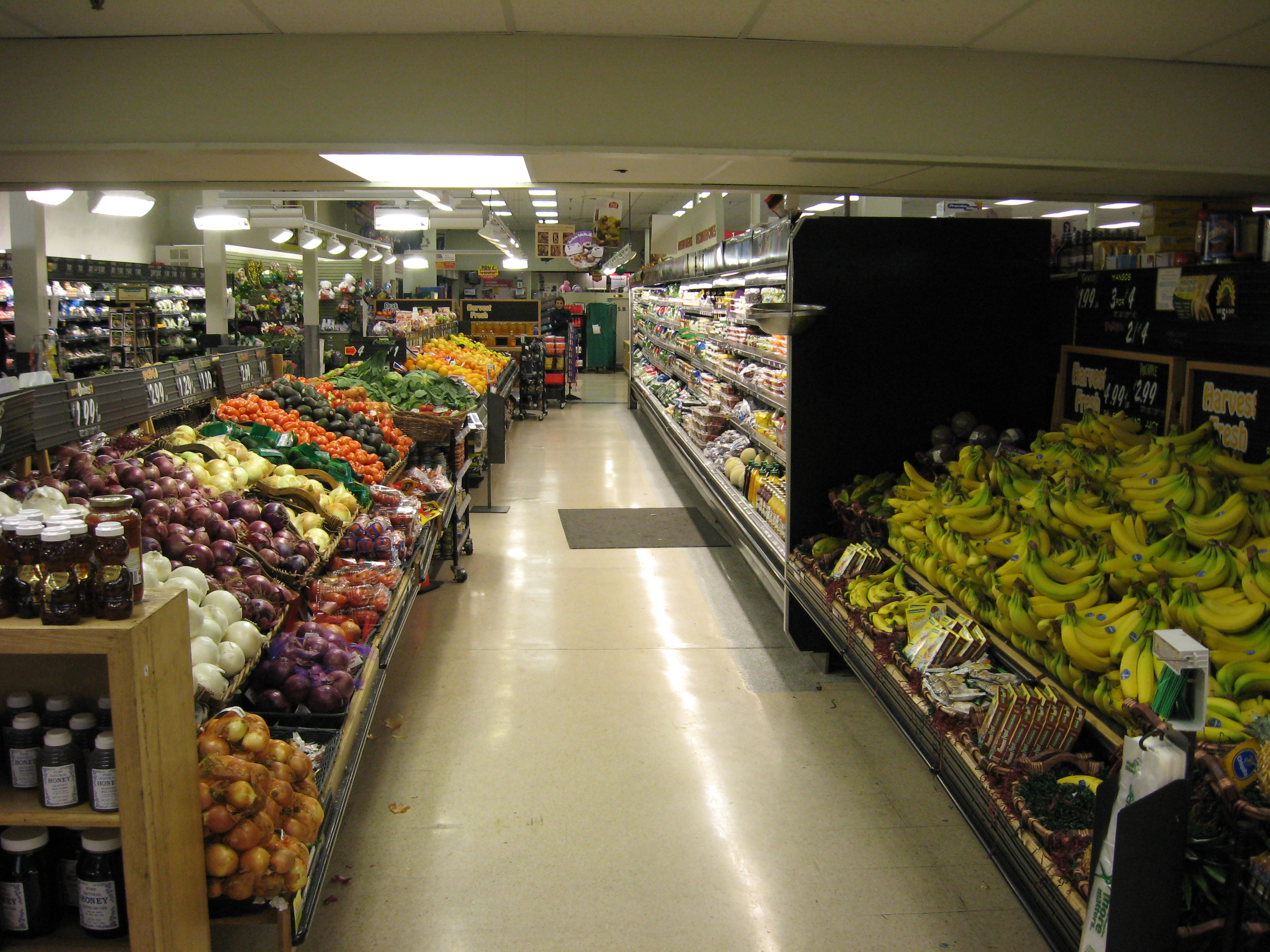 Interior of Whole Foods Market in New Orleans, USA. March 2007.